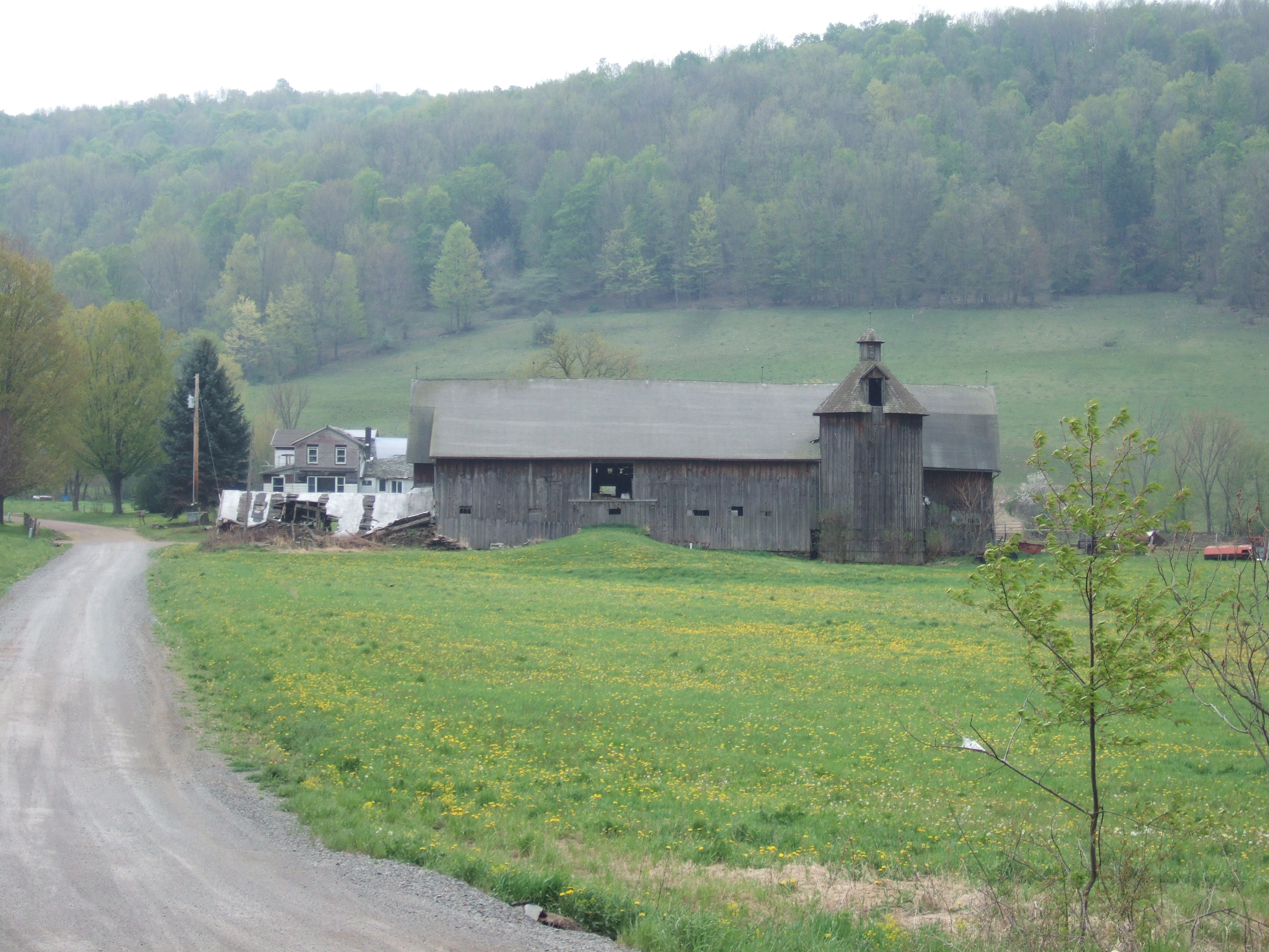 A farm near Austinville in Columbia Township, Bradford County, PennsylvaniaAustinville, Pennsylvania